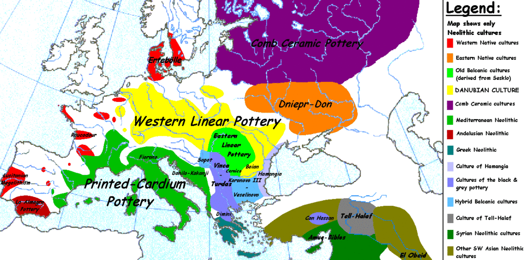 Areas of neolithic cultures in Europe